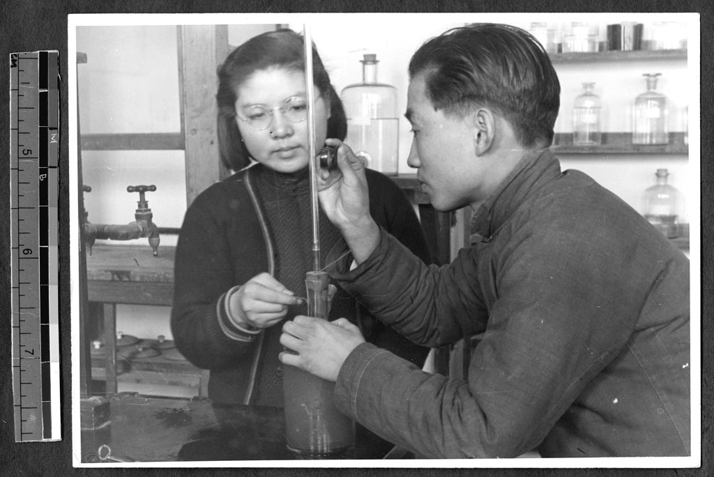 Students in chemistry lab, Cheeloo University, Jinan, Shandong, China, 1941, Source YDS/RG011/414/5870/4620, Yale Divinity Library Special Collections. Uploaded to Wikimedia Commons with permission from Yale Divinity Library.